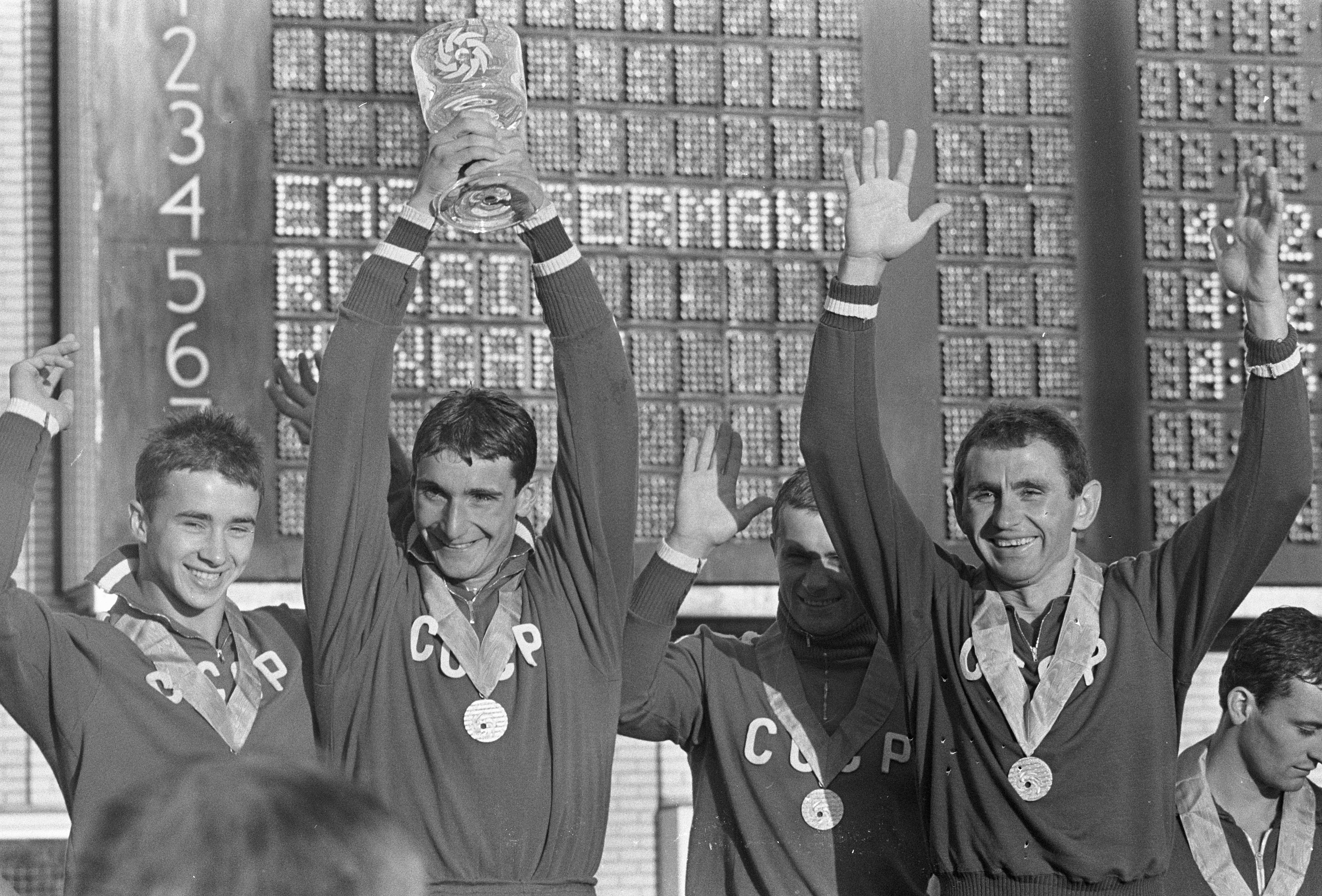 Left-right: Ilyichov, Mazanov, Kuzmin, Prokopenko, European champions in the 4 x 100 m medley